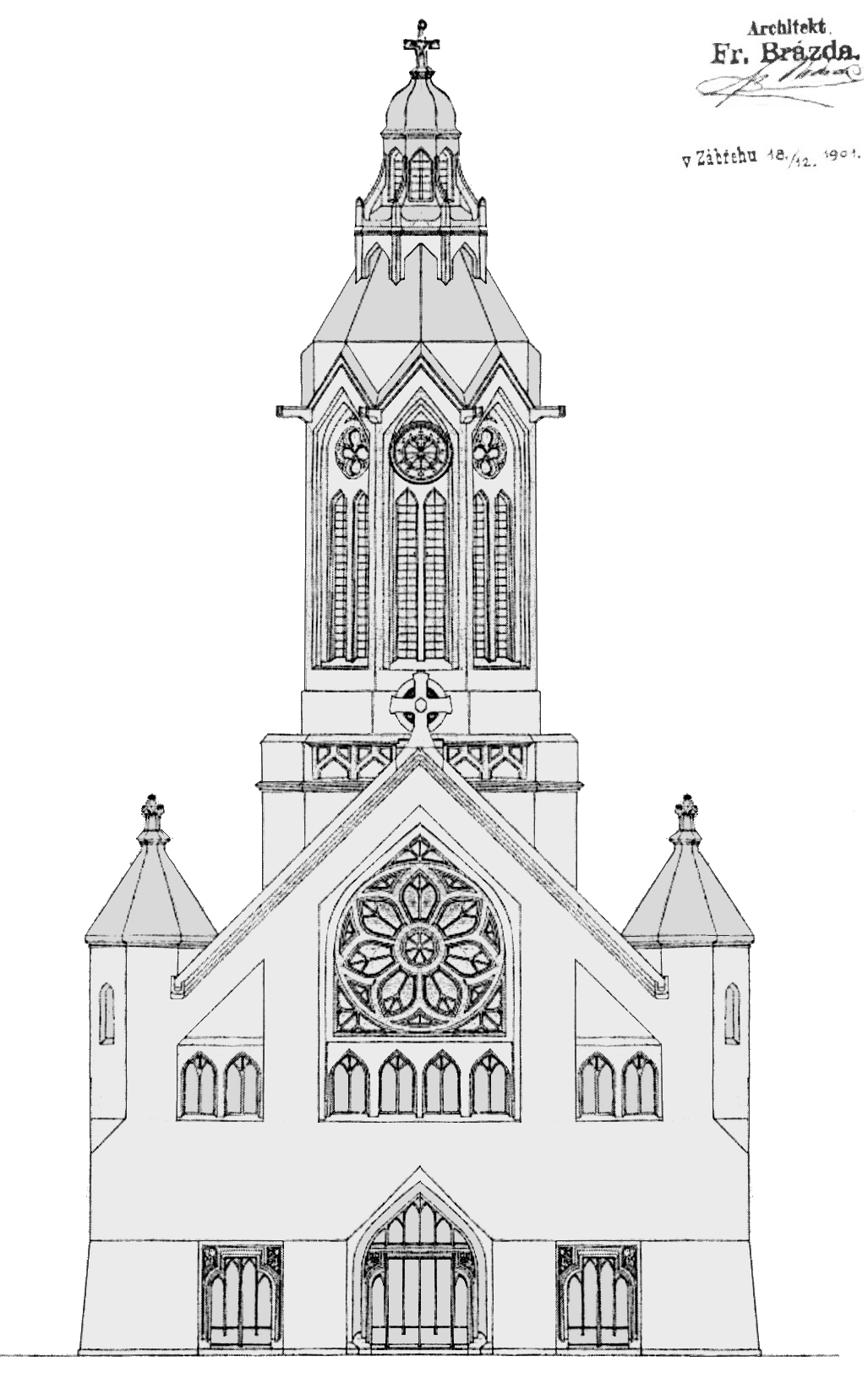 Plan of the St. Procopius Church in Dlouha Trebova